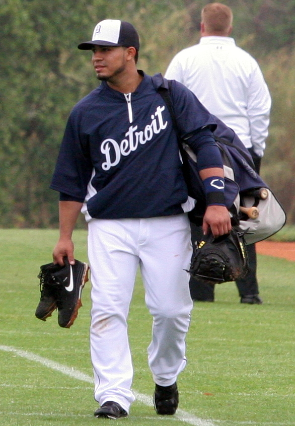 Bryan Holiday, Brayan Pena and Ramon Cabrera (left to right) of the Detroit Tigers walk together in 2013.